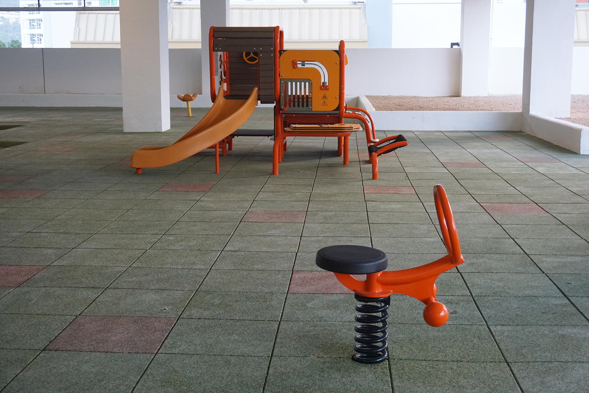 Mun Tung Estate in Tung Chung, Hong Kong.